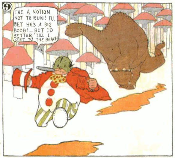 Ninth panel from In the Land of Wonderful Dreams comic strip episode by Winsor McCay, subtitled "Flip in the Land of the Antediluvians". First published 1913-09-21.